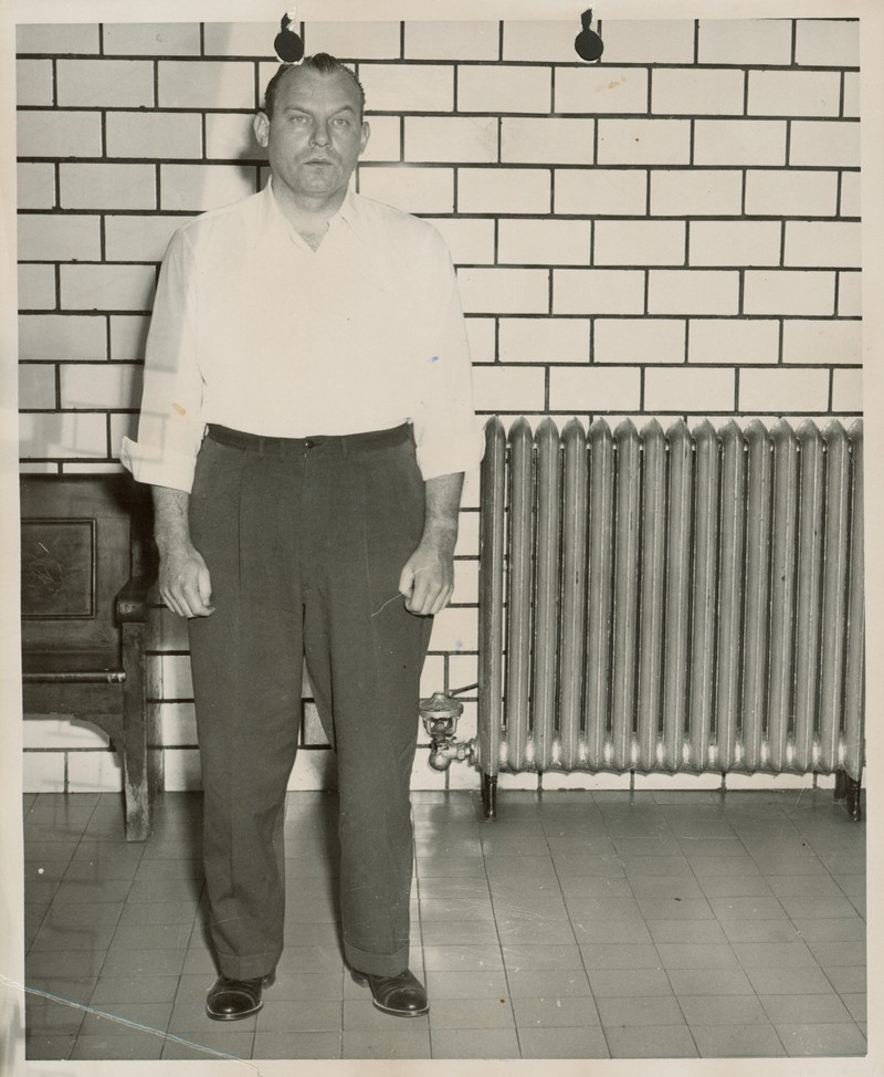 Photograph of Carl Austin Hall